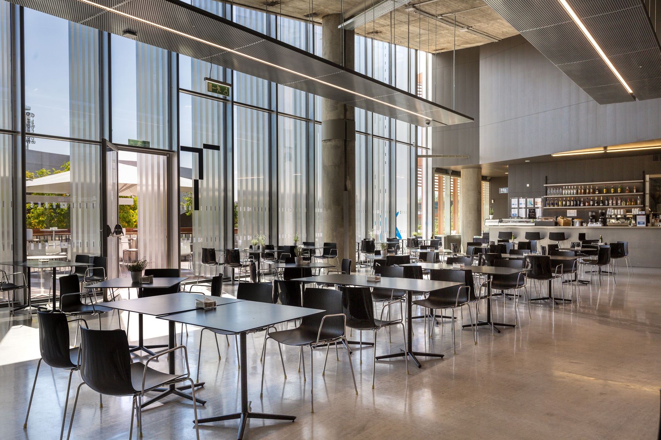 fotografia de Anna Elias Tf.0034 600427541